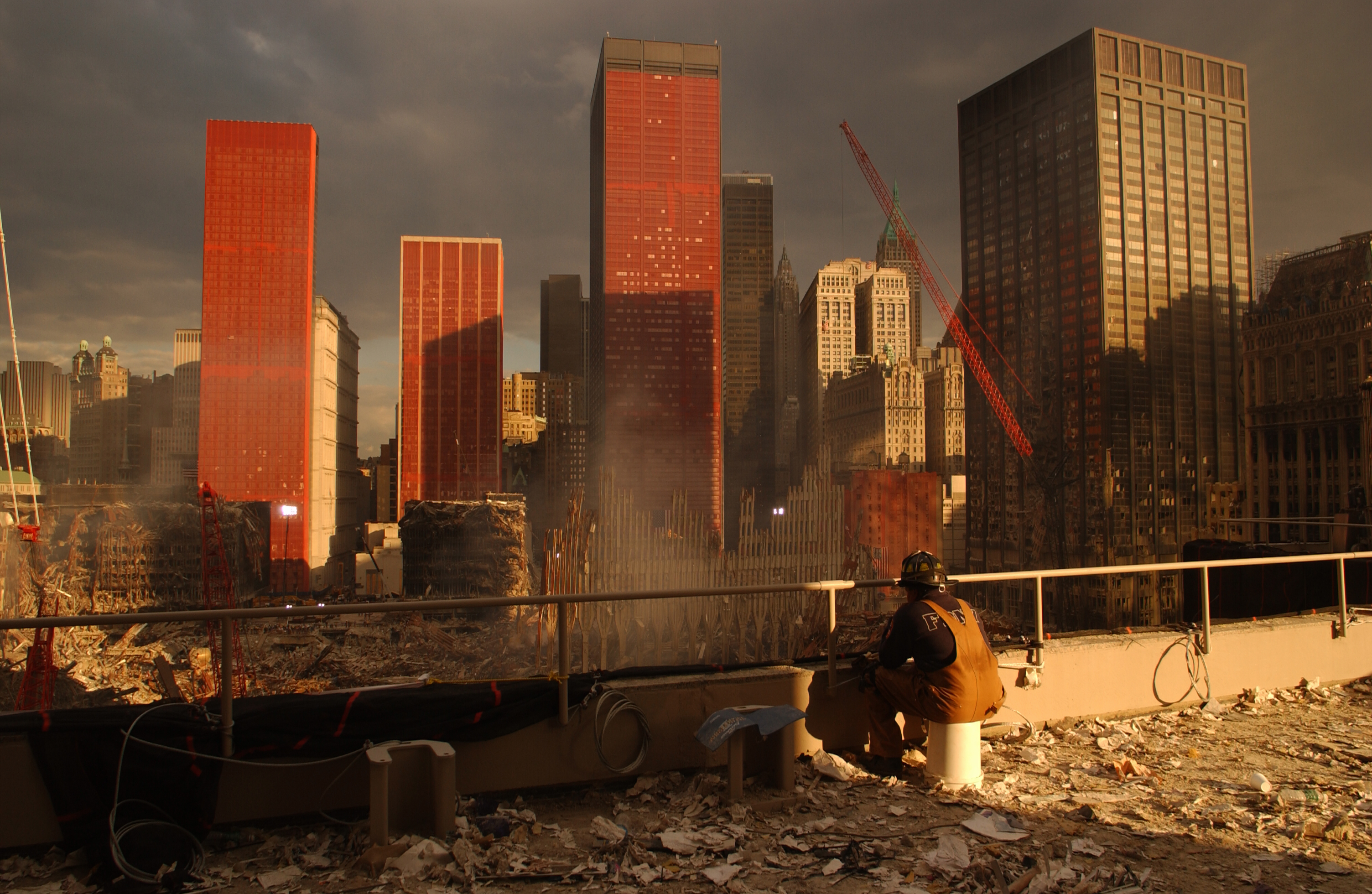 New York, NY, September 28, 2001 -- A firefighter watches debris removal at the World Trade Center from nearby roof. Photo by Andrea Booher/ FEMA News Photo